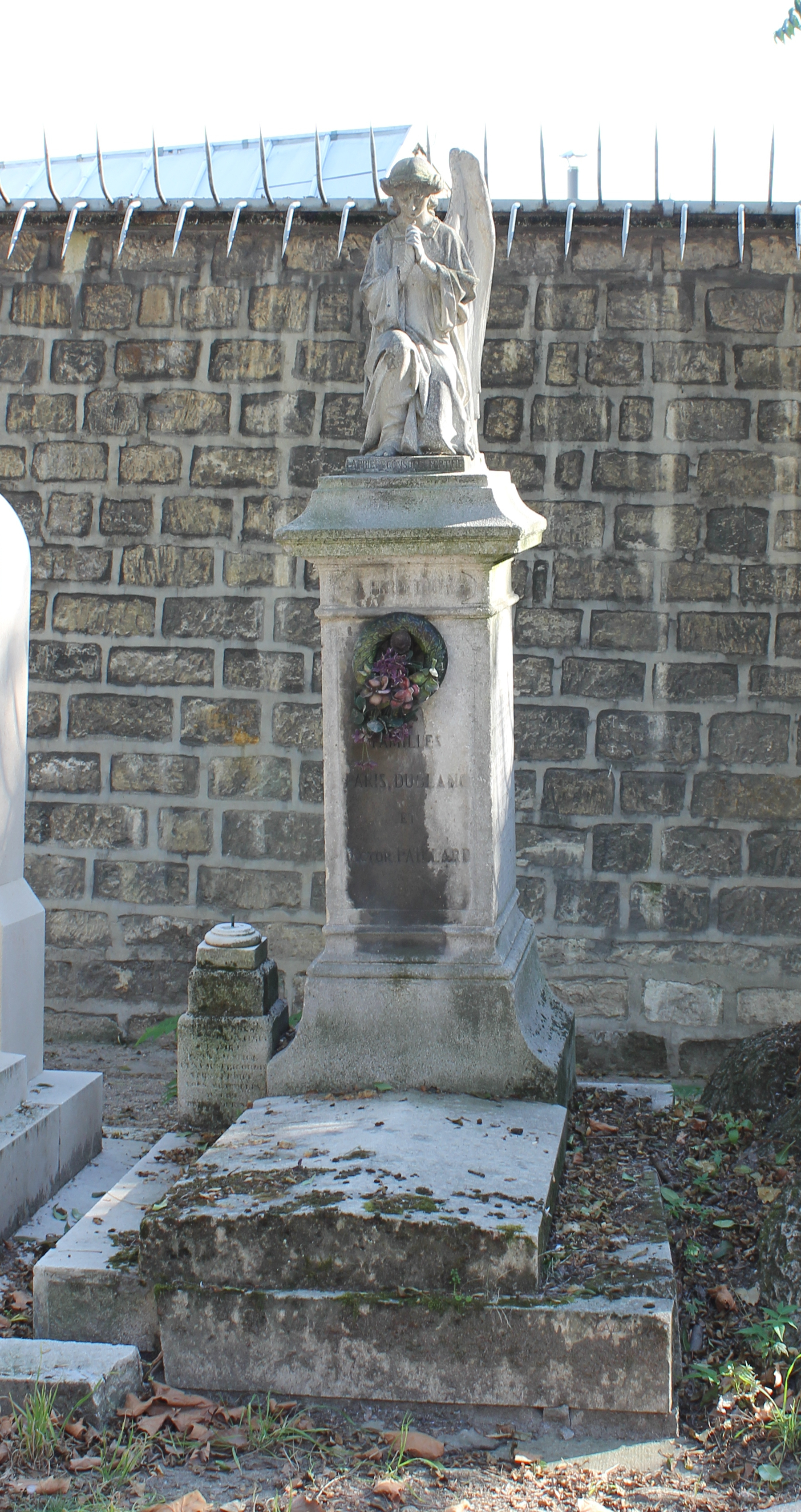 Grave of Victor Paillard (1805-1886)